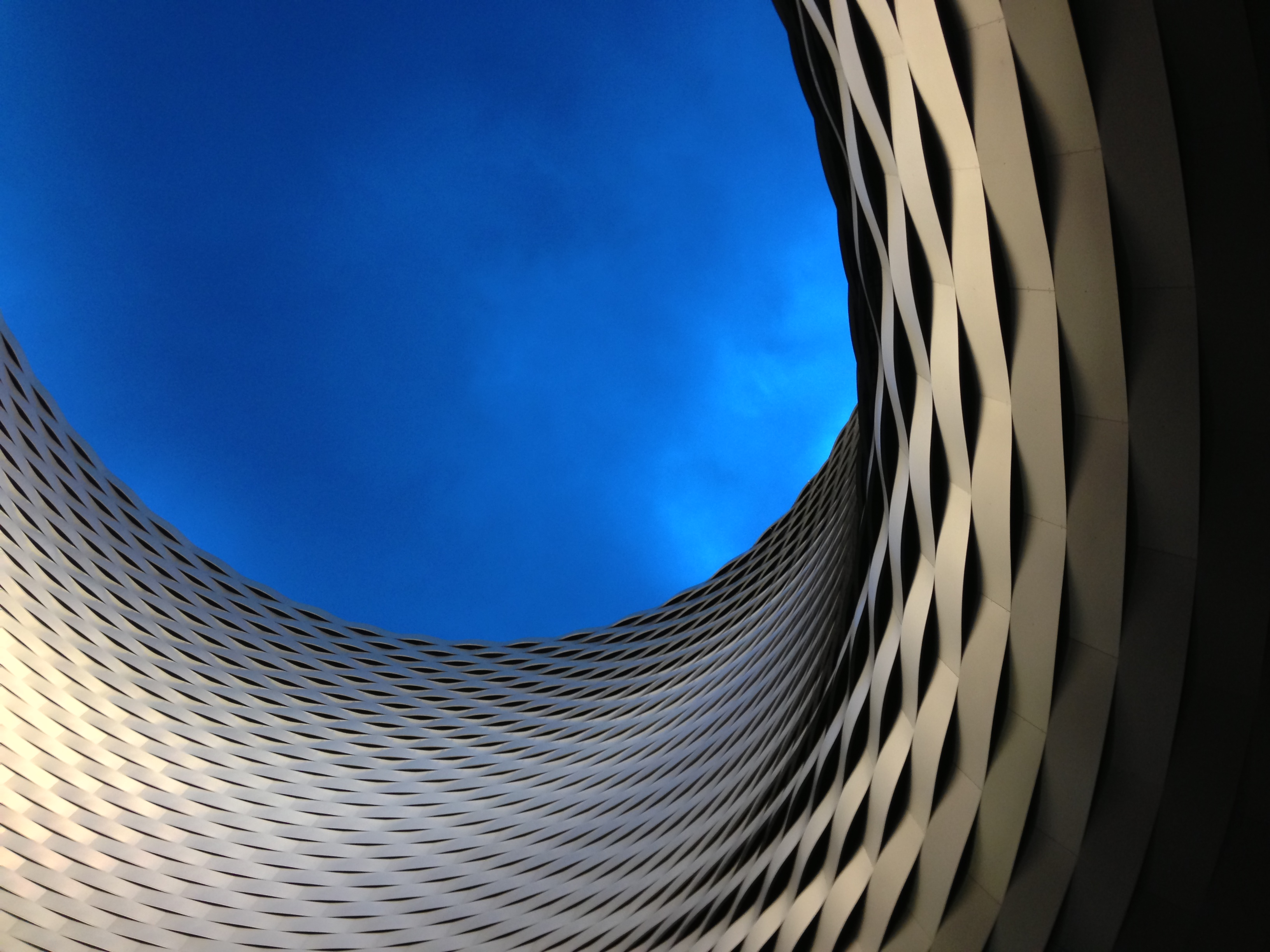 Art exhibitions, Baselworld, Art Basel